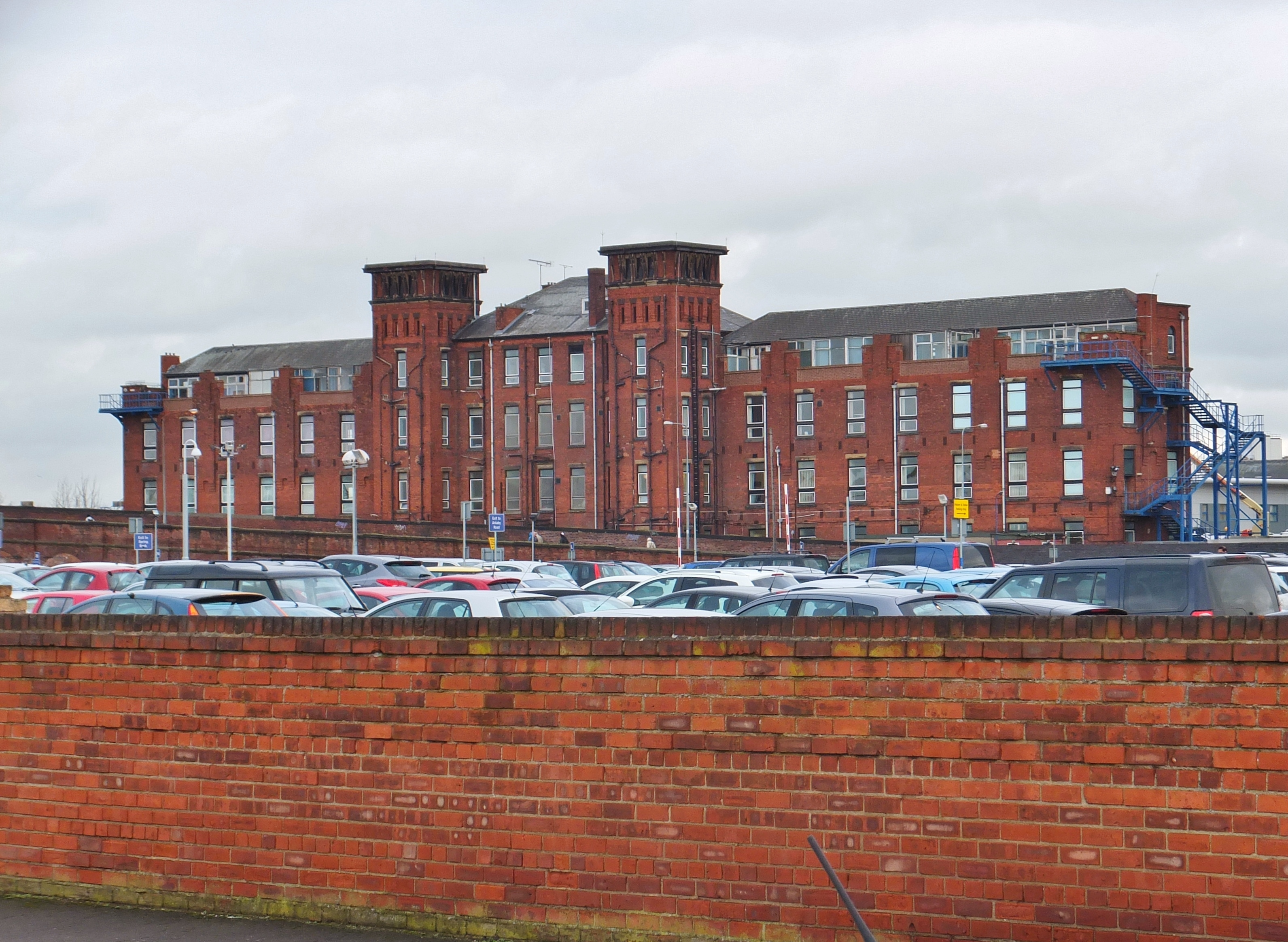 Lansdowne Street, Kingston upon Hull